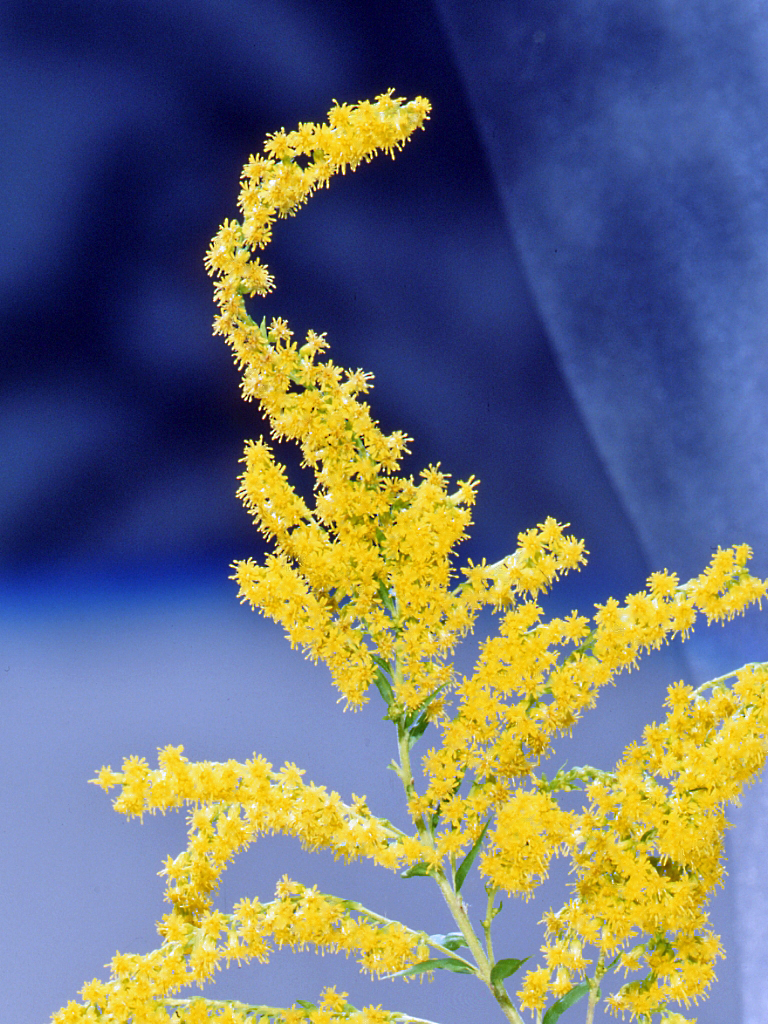 goldenrod, Aaron's rod .